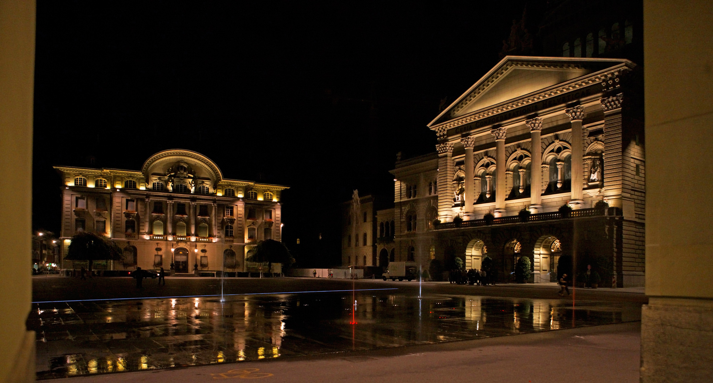 Bern, National Bank and Parliaments House